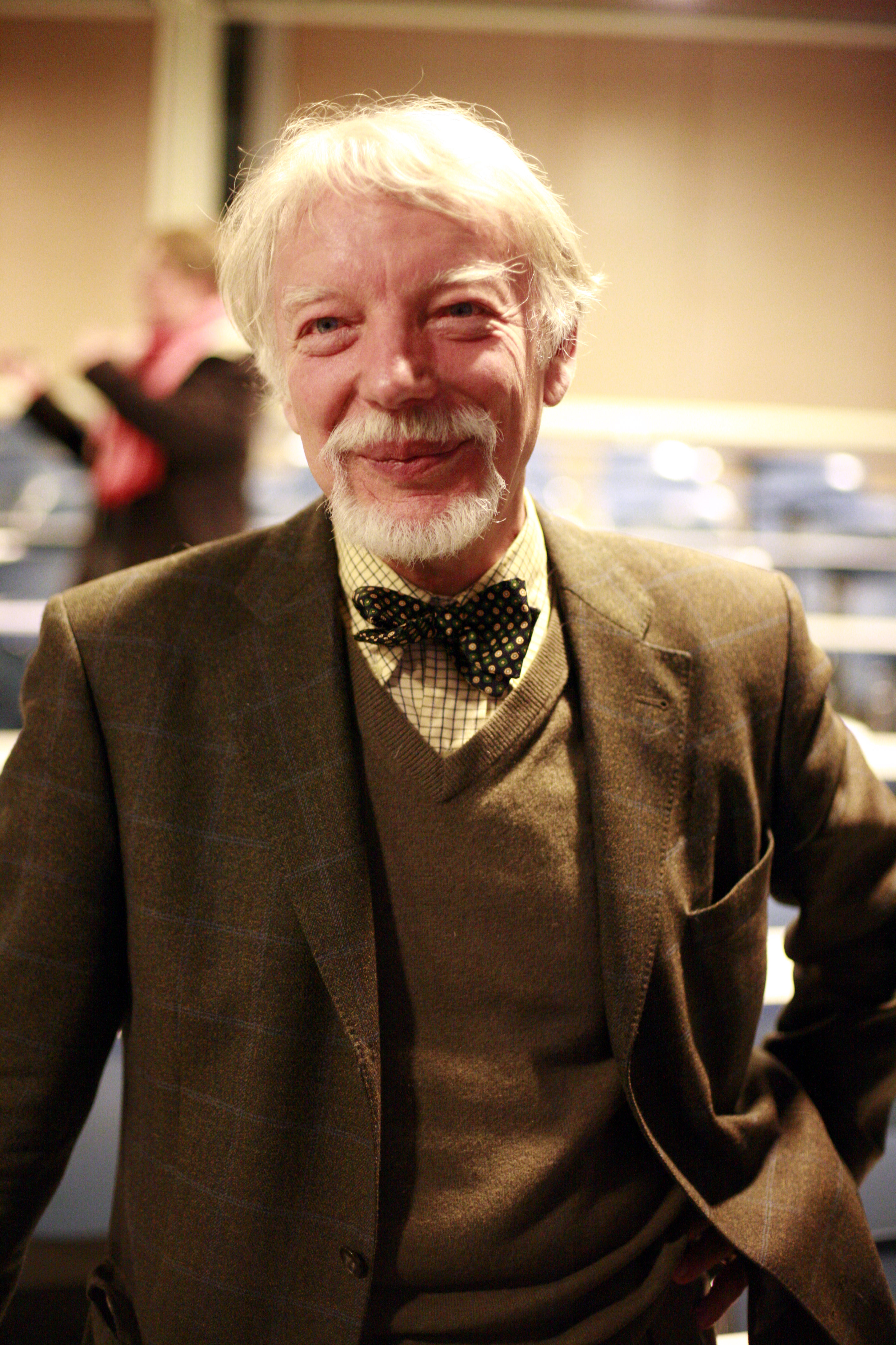 Prof. Jan Assmann